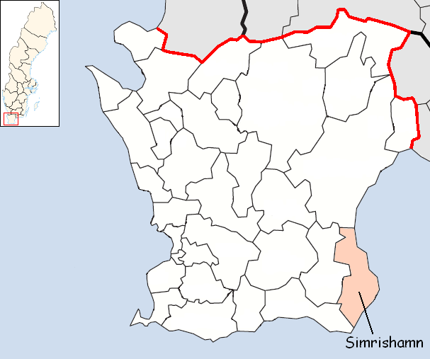 Simrishamn Municipality in Scania, Sweden Designed by me. Mere outlines are a PD source from